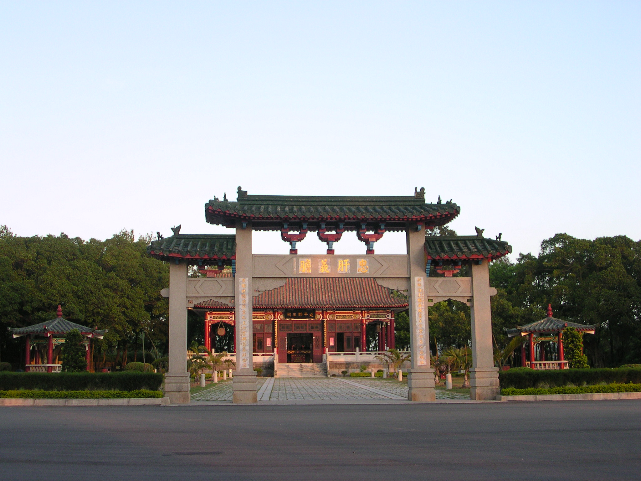 Koxiga Shrine, Kinmen, Republic of China(Taiwan) by koika